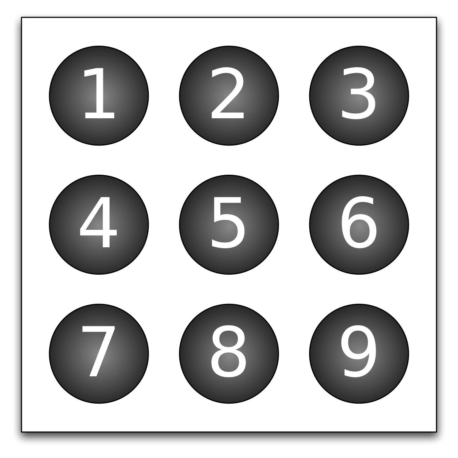 An explanation of the dot notation used when discussing Sudoku.